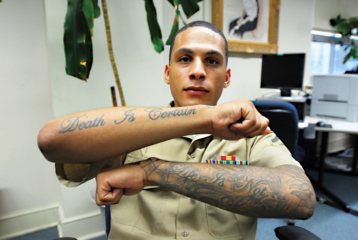 U.S. Marine Corps Lance Cpl. Robert Patterson, of the Fort Benning Marine Detachment, shows off tattoos he received two years ago. James Elmer, a medically retired Soldier, is putting together a collection of Global War on Terrorism tattoos to feature in an as-yet-untitled book to be published next year.